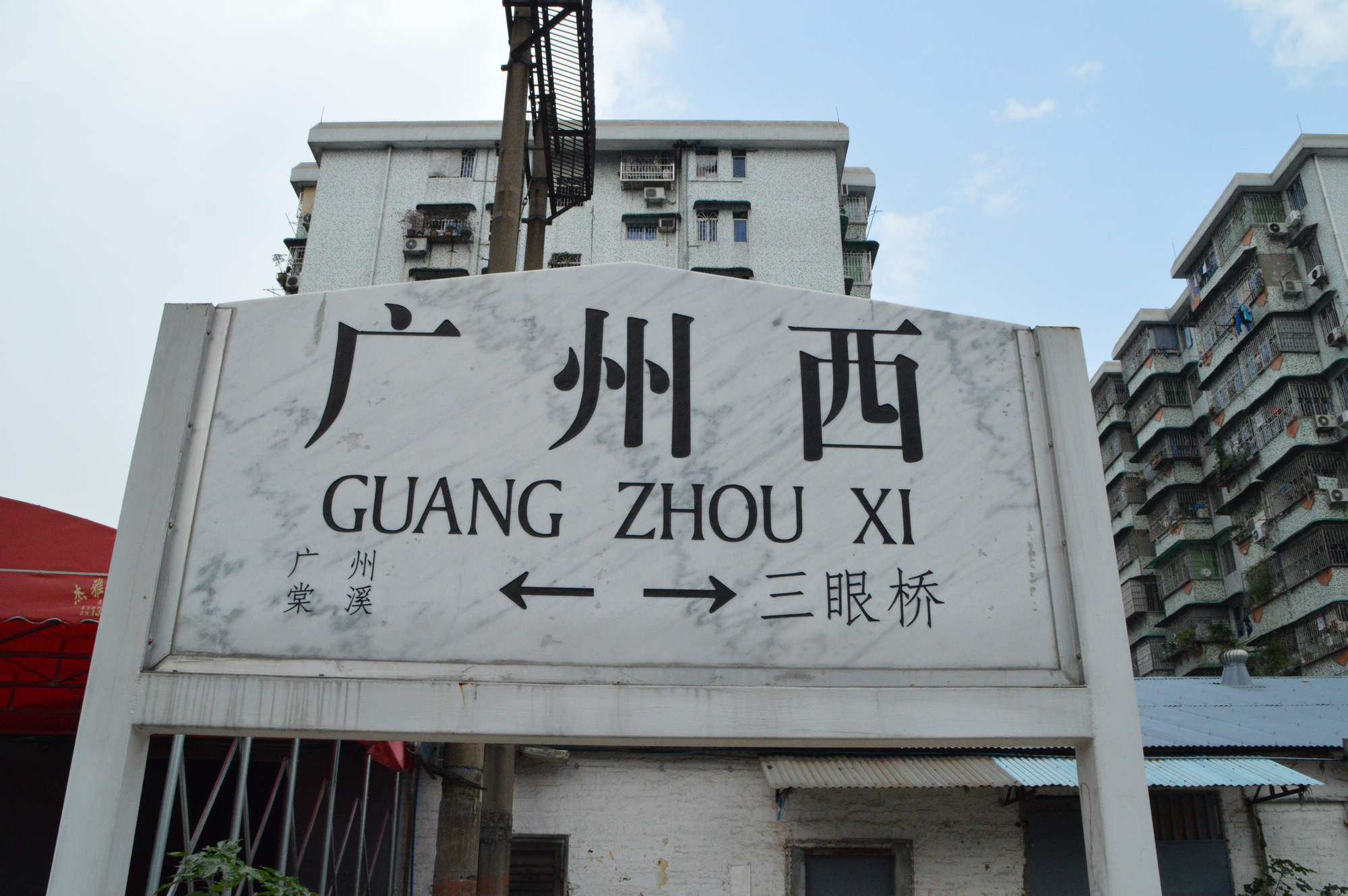 Guangzhou West Railway Station